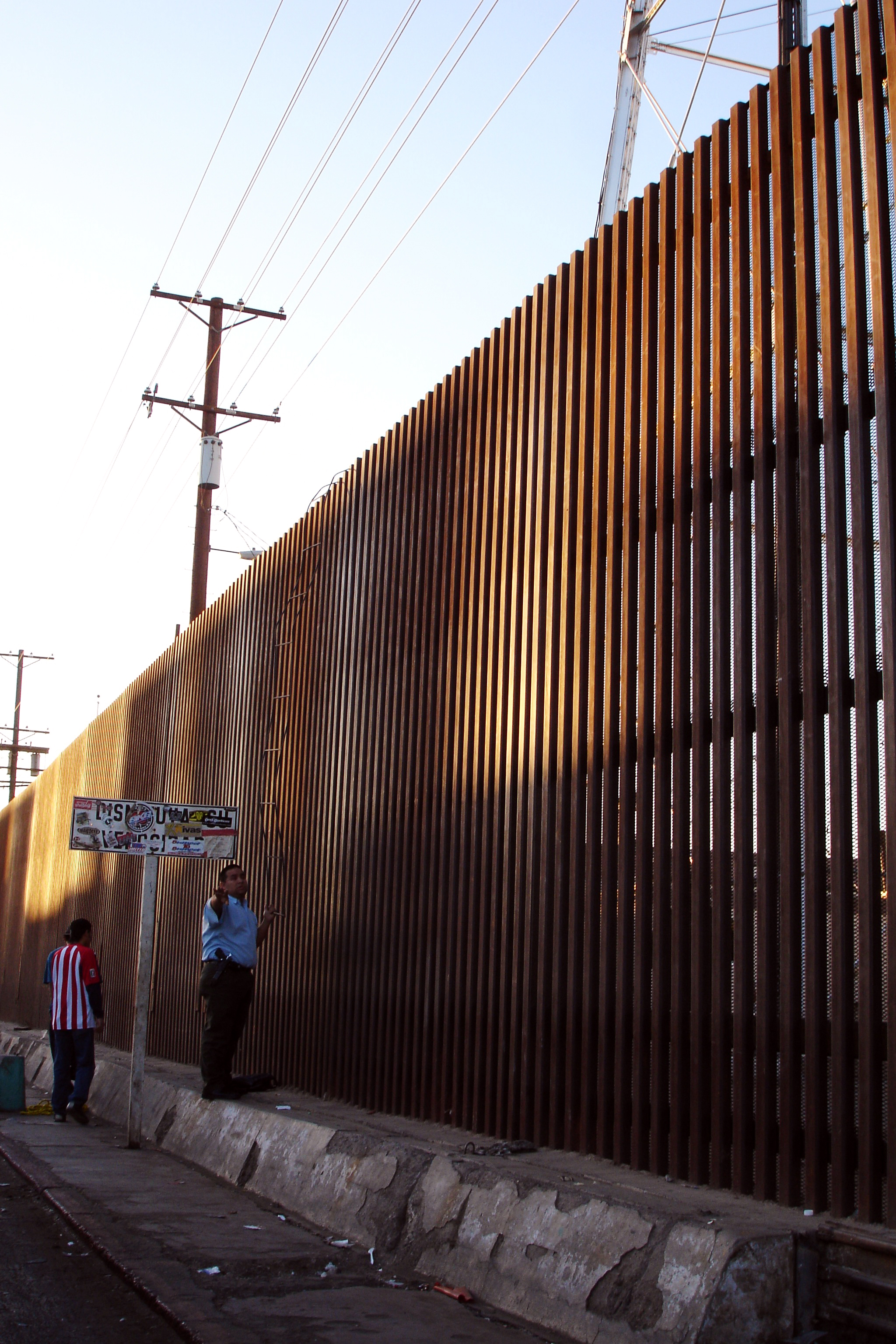 Lizbeth took this photo A couple of guys showed up, with a welded re-bar home-made ladder, to climb this umclimbable new fence. The home-made re-bar ladder was hooked up at the top of the fence simply by bending the top re-bar into a hook, and lifting the ladder into place. One guy climbed, jumped and was almost immediately arrested by the Border Patrol, the other ran and was arrested on the Mexican side by some sort of Mexican border police. This overweight Mexican law-enforcement officer is telling us to stop so he can remove the ladder. We were in line to cross for 2 hours, the Saturday after Thanksgiving 2OO6. Mexicali & Calexico Lower & Upper Californias, México & USofA